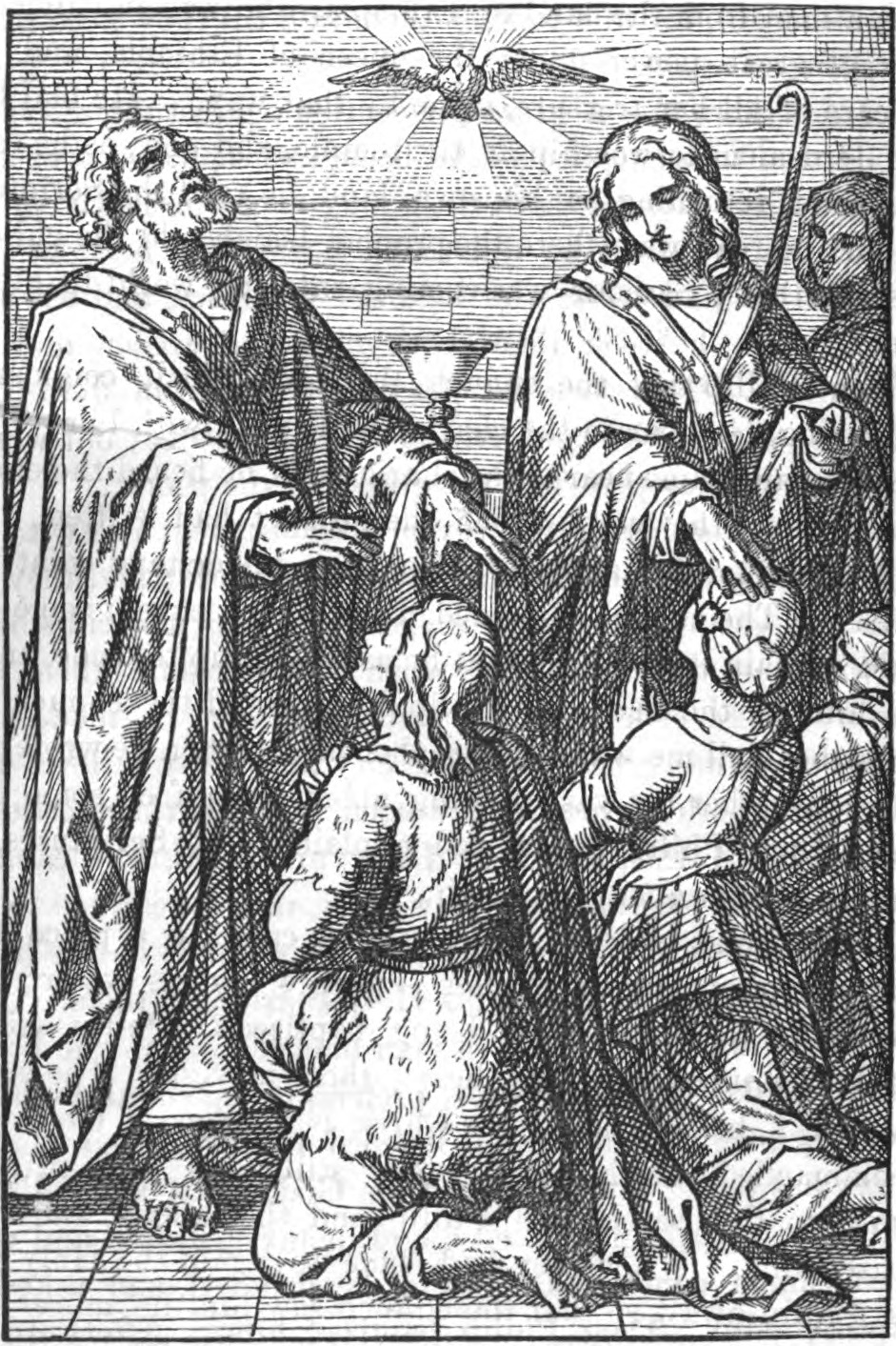 Peter and John laying their hands on the disciples.